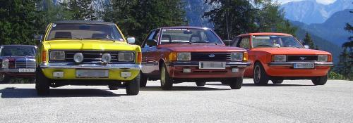 Ford Taunus Model 1971, 1980 and 1976